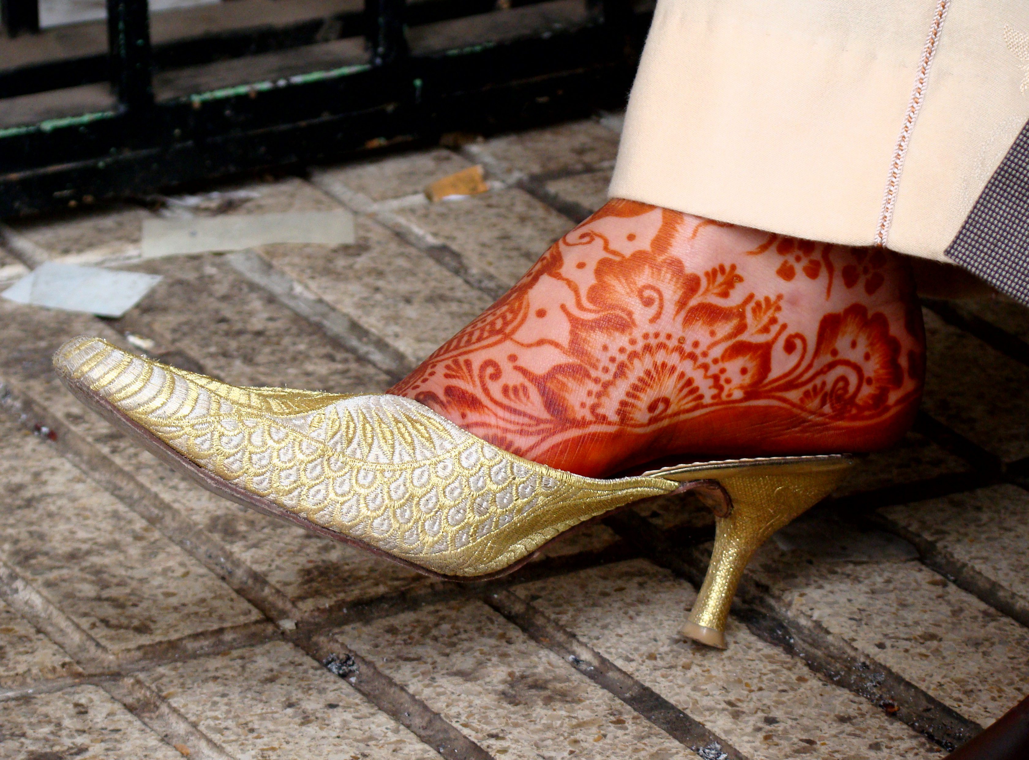 Example of henna applied to a woman's foot in Morocco.